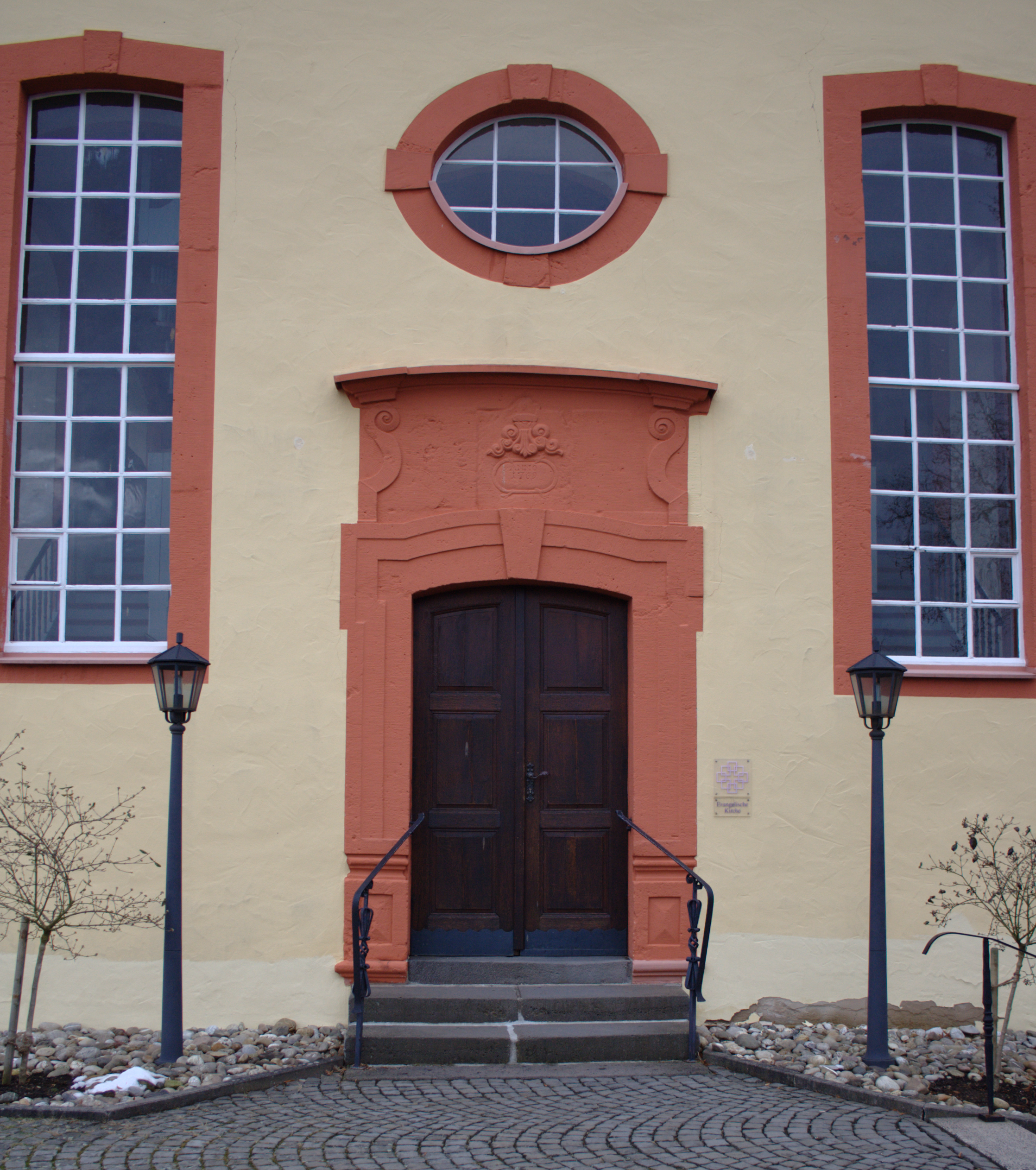 Protestant church (portal) in Reiskirchen Tennenwald / Hesse / Germany